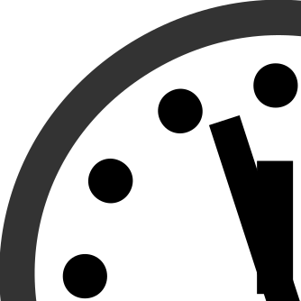 The Doomsday Clock set to minus 3 minutes (